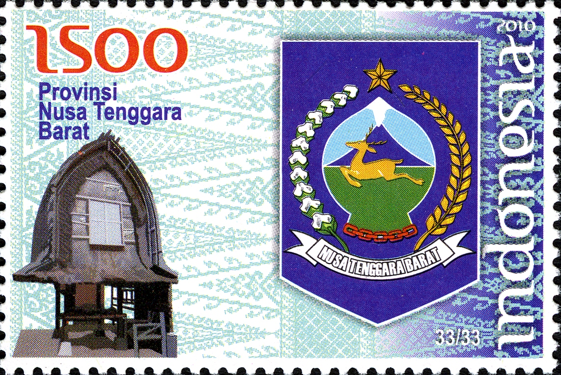 Stamps of Indonesia